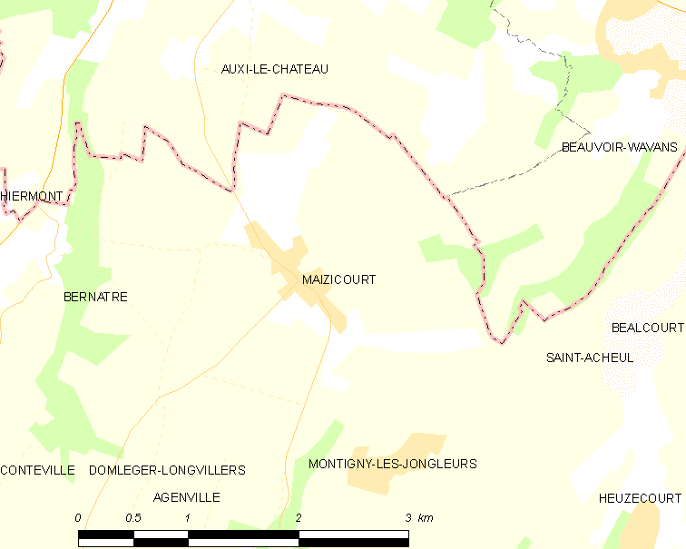 Map of French municipality Maizicourt